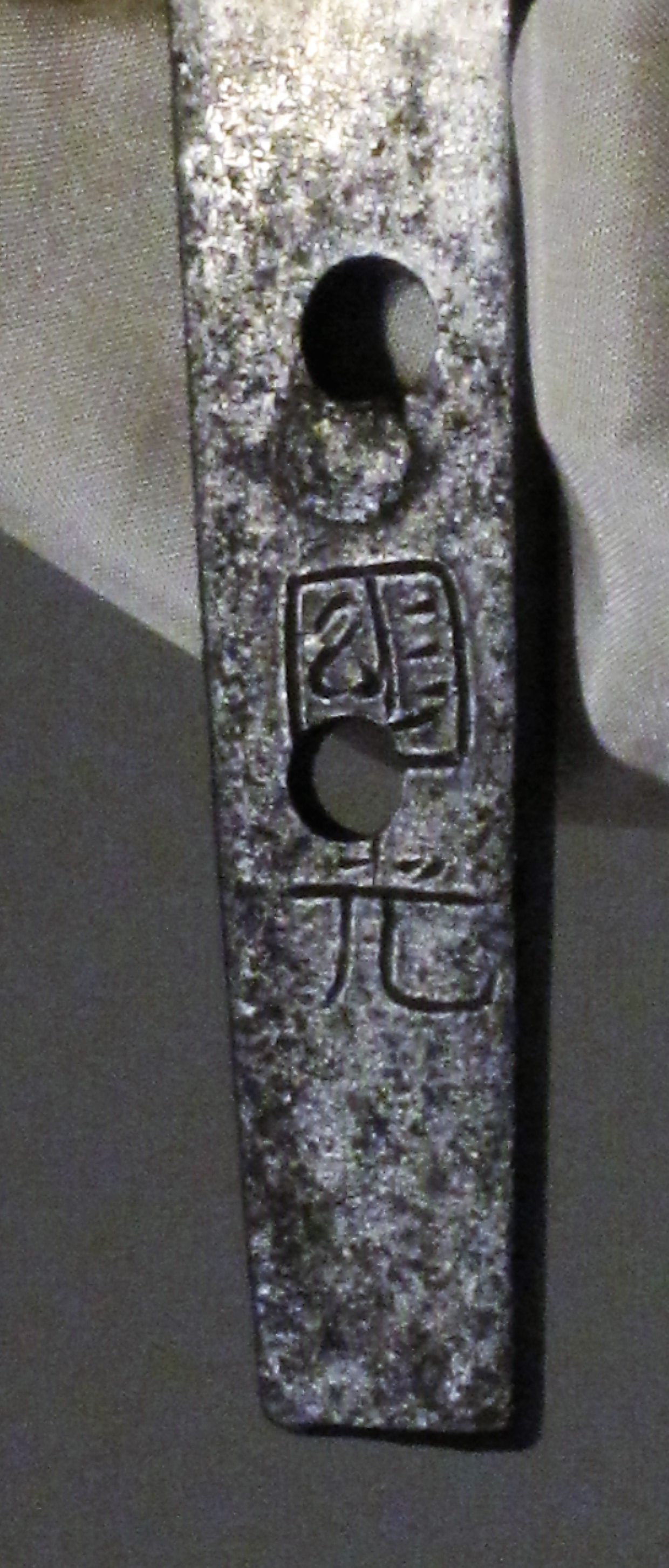 A nakago of tanto made by Shintōgo Kunimitsu (Important Cultural Property), the collection of Tokyo National Museum.